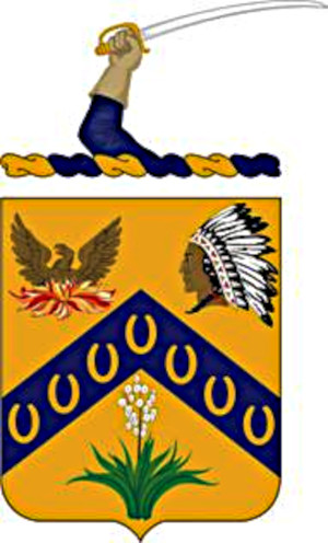 7th Cavalry Regiment Coat Of Arms